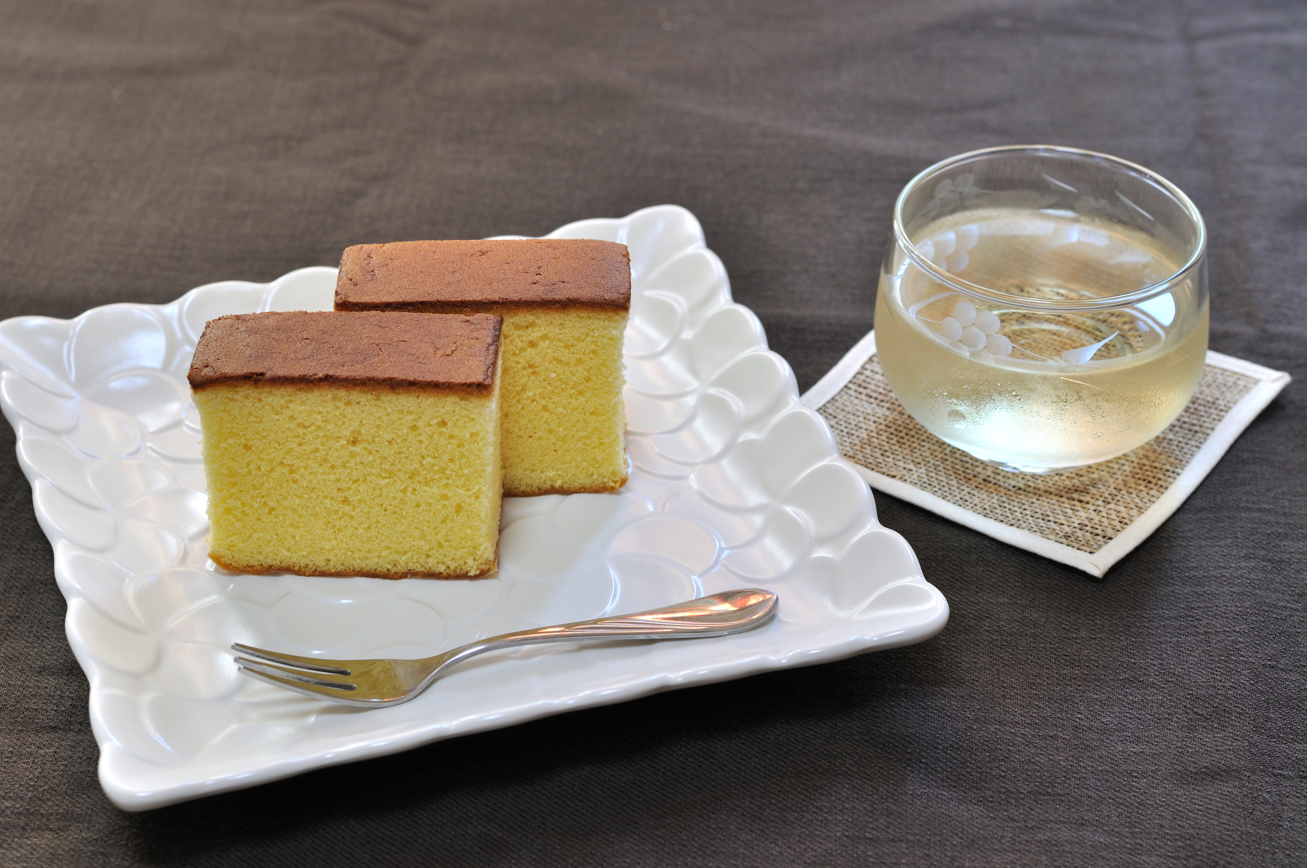 Typical example of Castella.